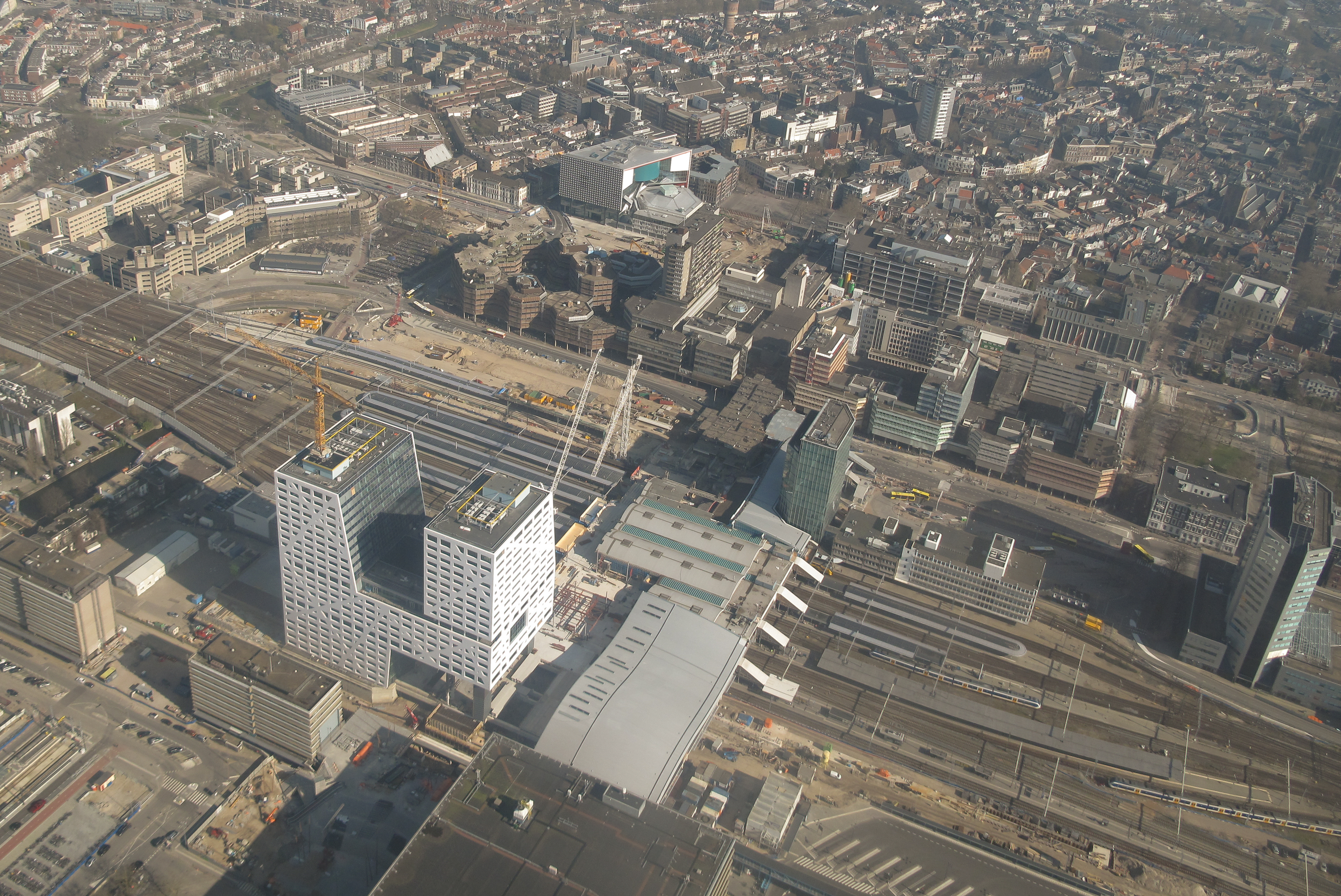 Utrecht, central station